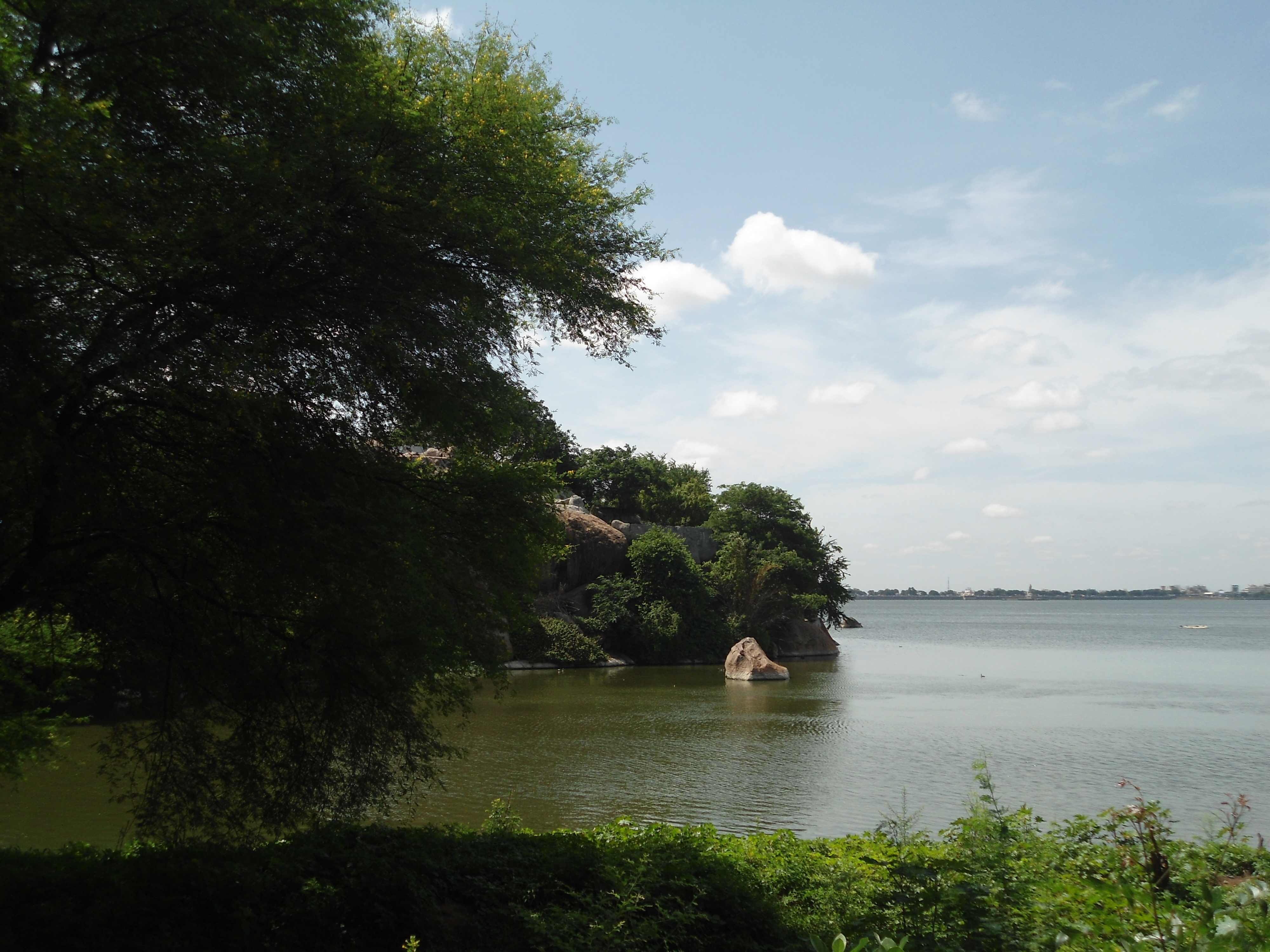 View at Hussainsagar Lake Wetland Eco Region, Necklace Road, Hyderabad